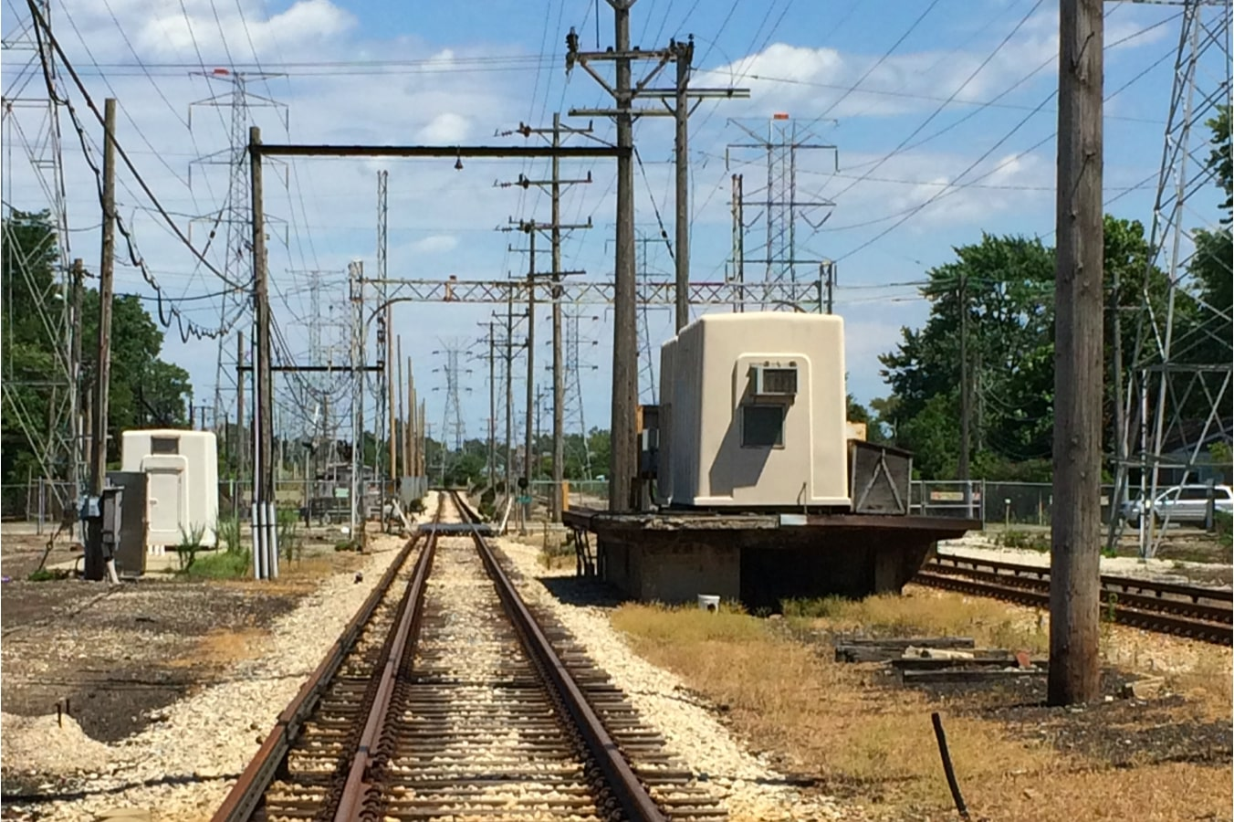 67 years after abandonment, a portion of the Crawford-East Prairie station remains in use for CTA equipment. The view looks east from Crawford Ave.